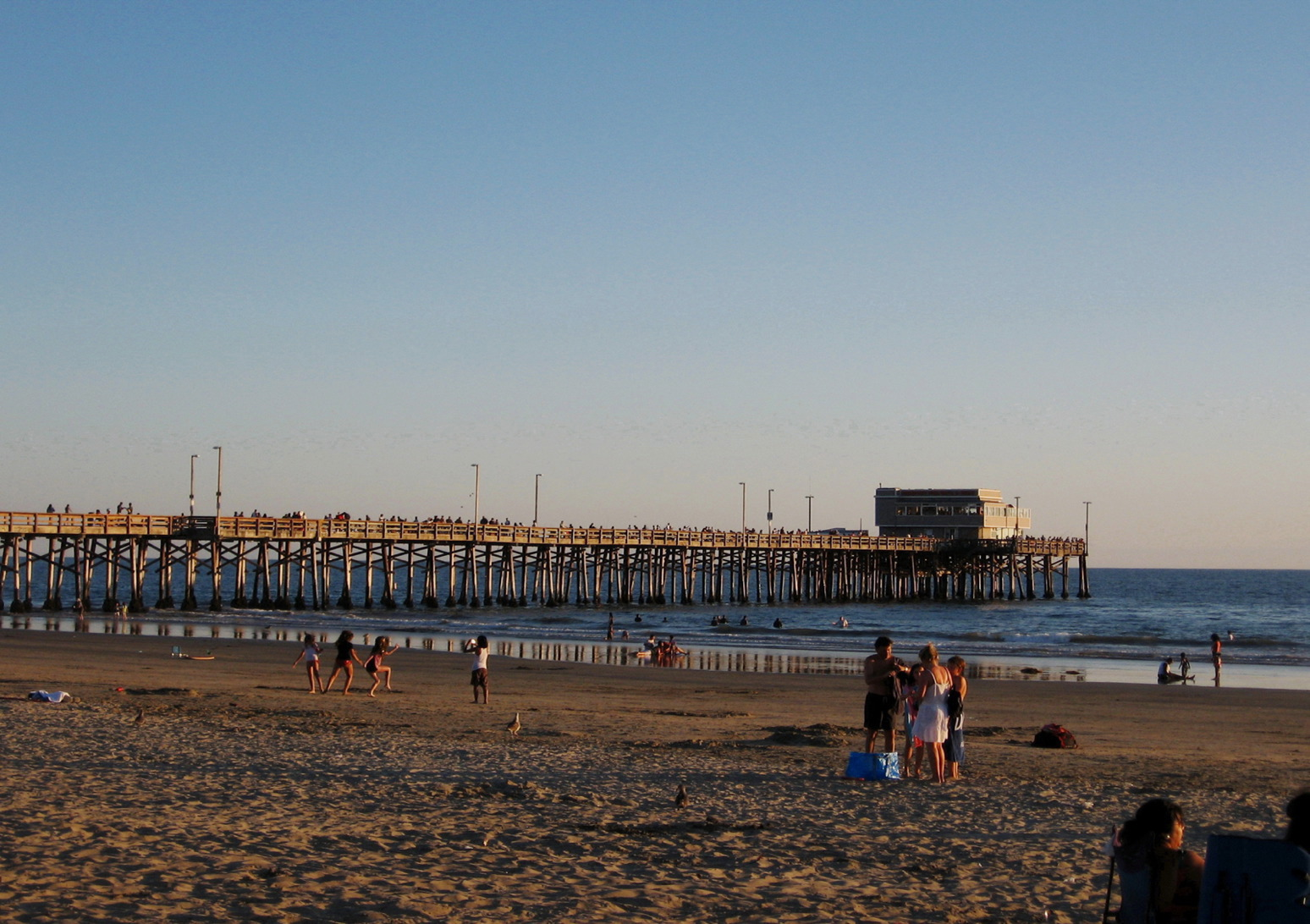 The Newport Pier in Newport Beach, California.